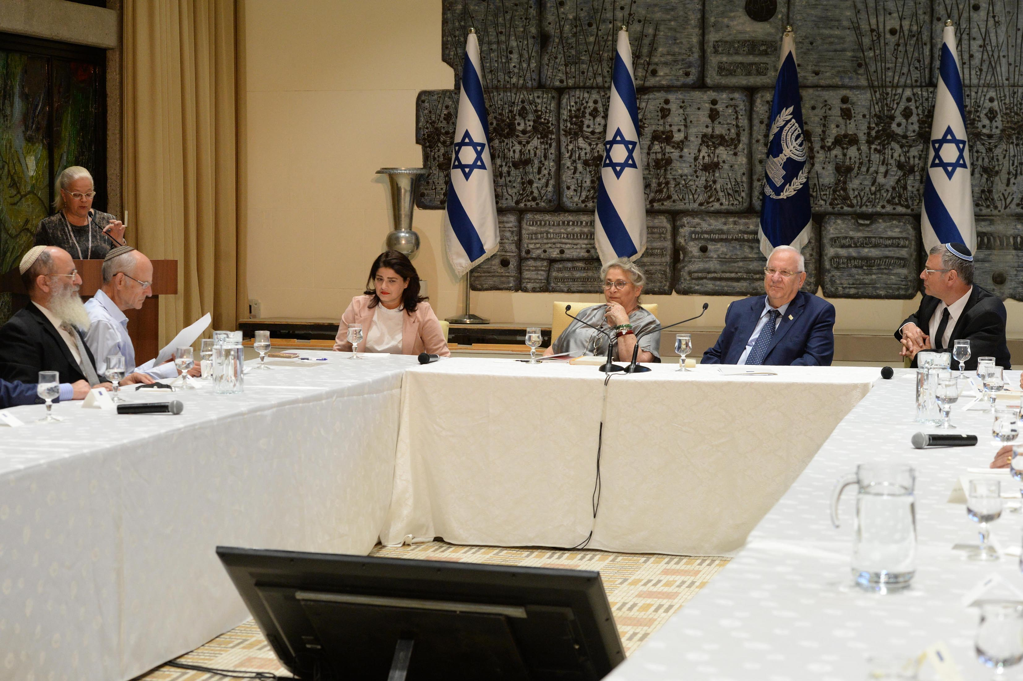 President Reuven Rivlin and his wife host the Fourteenth Bible Lesson in Project 929. Sunday, September 17, 2017. Photo Credit: Mark Neyman / GPO.